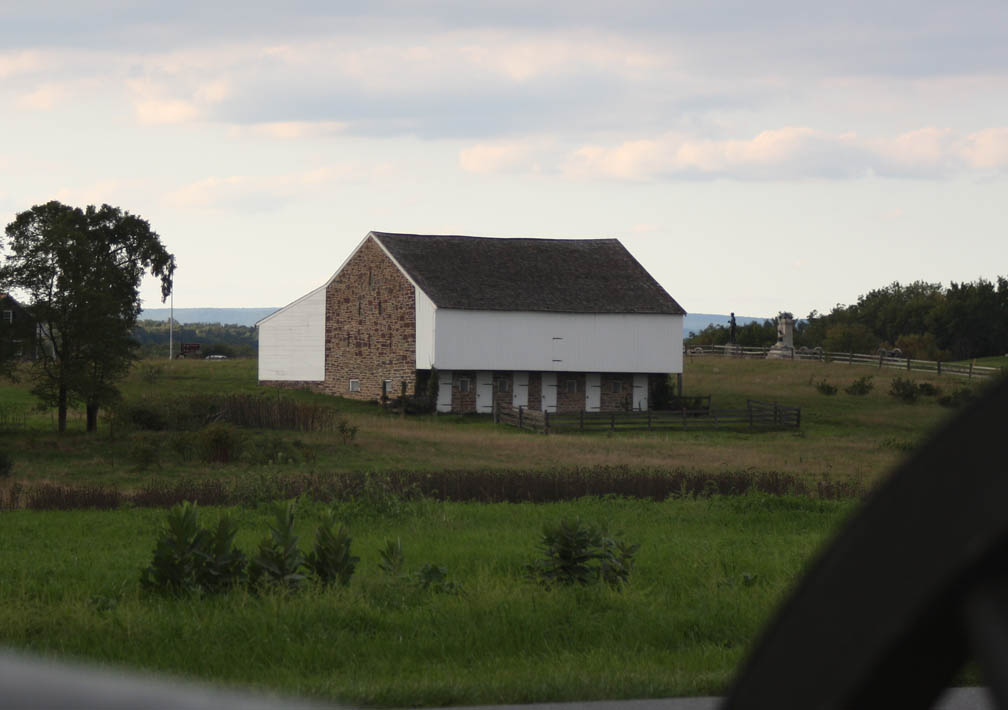 McPherson Farm where heavy fighting took place during the Battle of Gettysburg on July 1, 1863.